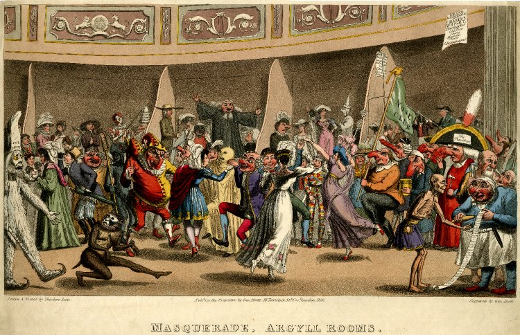 Etching of scene in the Argyll Rooms. Includes text about origin: 'Drawn & etched by Theodore Lane. / Engraved by Geo. Hunt. / Pubd. for the proprietor, by Geo. Hunt, 18 Tavistock Stt. Covt . Garden. 1826.'